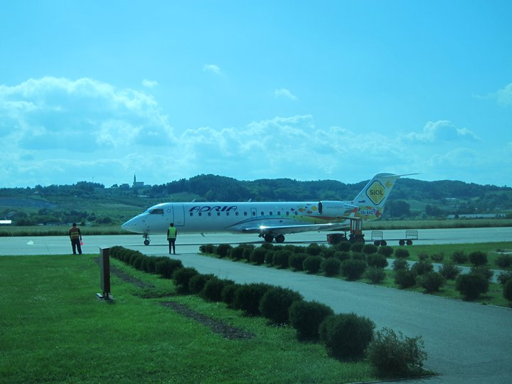 Adria Airways plane in Banja Luka